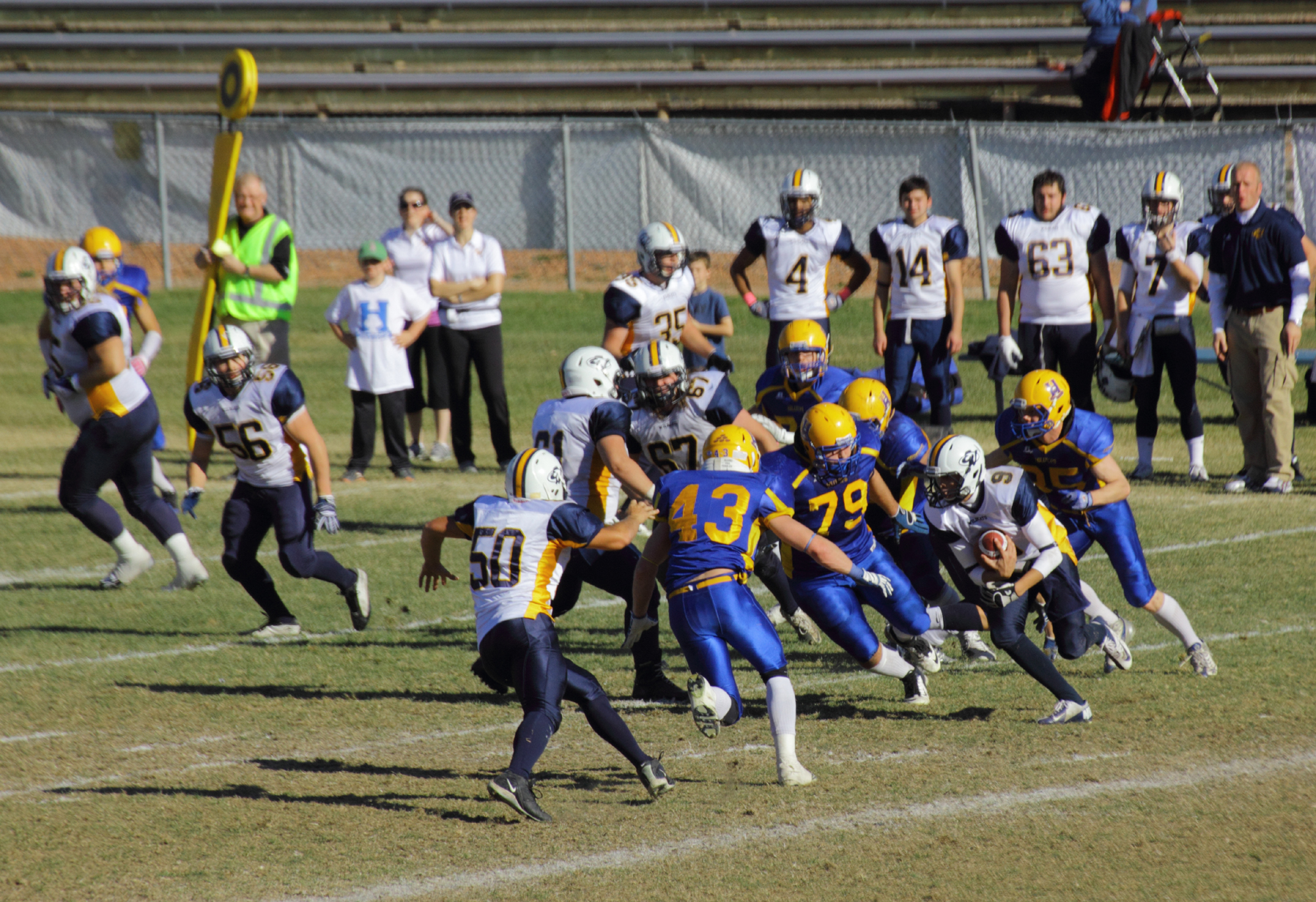 Sunday October 14, 2012 1:00 p.m. Junior Football game in the Prairie Football Conference (PFC). Canadian Junior Football League teams included Edmonton and Saskatoon. Saskatoon Hilltops were the home team at Gordie Howe Bowl home to the Saskatoon Hilltops . The game concluded at Hilltops 42-11 Wildcats. The Hilltops will continue in the playoffs advancing to the PFC Final next Sunday, October 21, 2012. The Regina Thunder defeated the Calgary Colts 24-21. Hilltops meet the Thunder at Gordie Howe Bowl. The champion of the PFC final will receive the hosting rights for the Jostens Cup. The Jostens Cup is played between the OFC Champion and PFC Champion Teams. The Jostens Cup winner goes on to play the BCFC Champion for the Canadian Bowl Championship. Second Quarter. Wildcats are on the 54 yard line 1st down and 10 to go. Wildcats Quarterback Taylor Yaremchuk is brought down, Donovan Dale Hilltops 79 is in on the tackle.